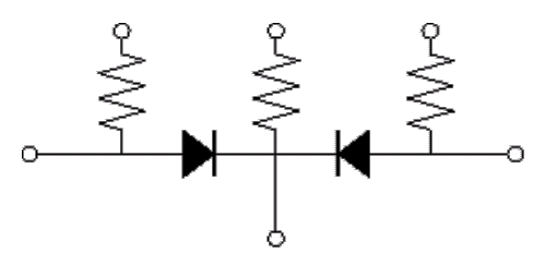 Circuit of Well-Known Standard High Frequency Diode Switch